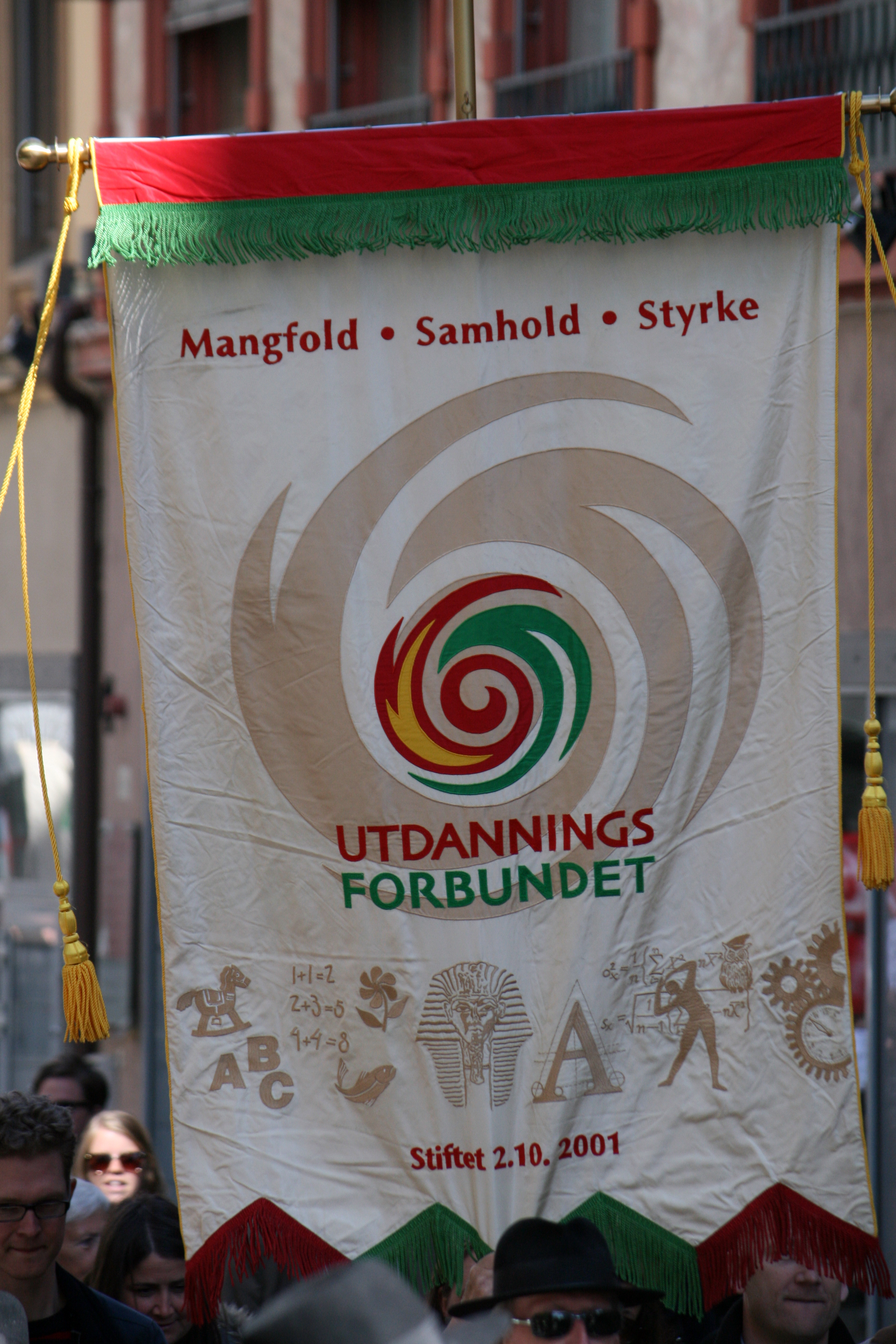 Banner of Union of Education Norway